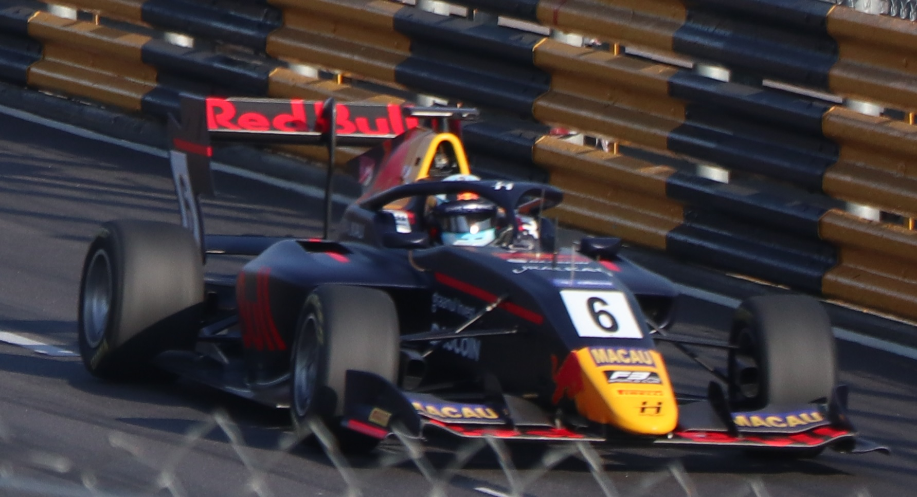 Juri Vips, Second Place Driver of 2019 Macau Grand Prix